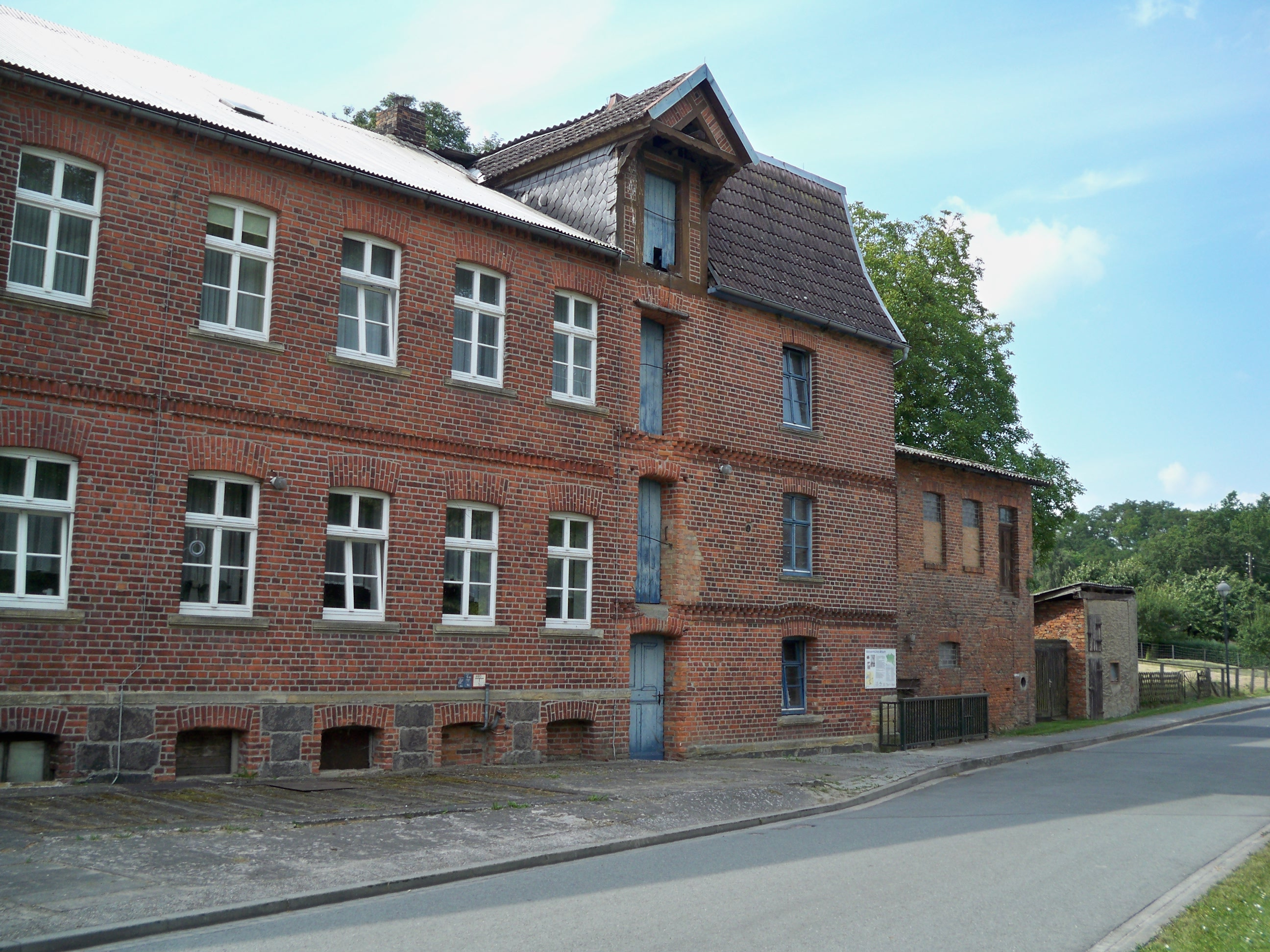 Ahlum, Rohrberg, Saxony-Anhalt, former water mill